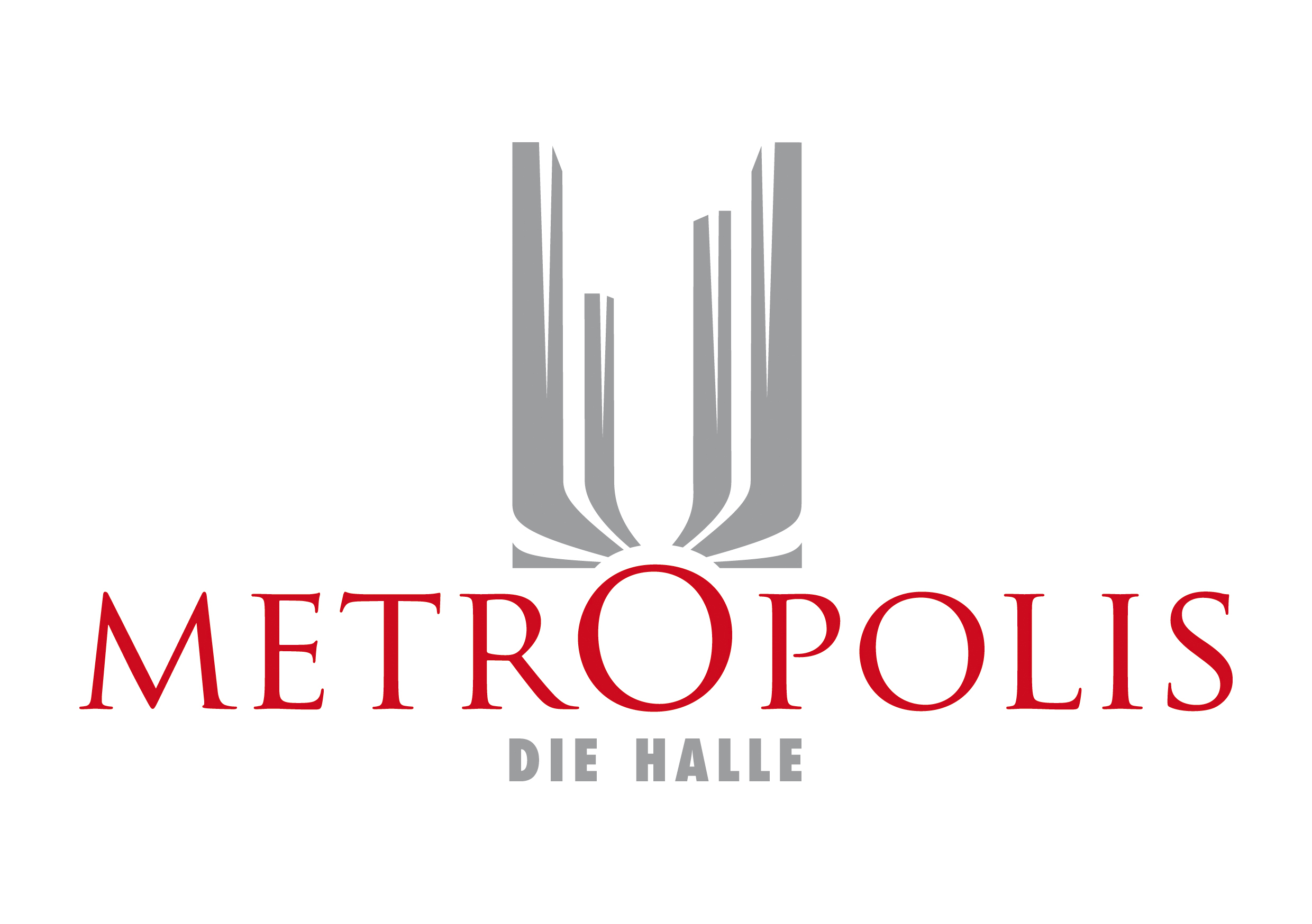 Metropolis Halle Logo - German version